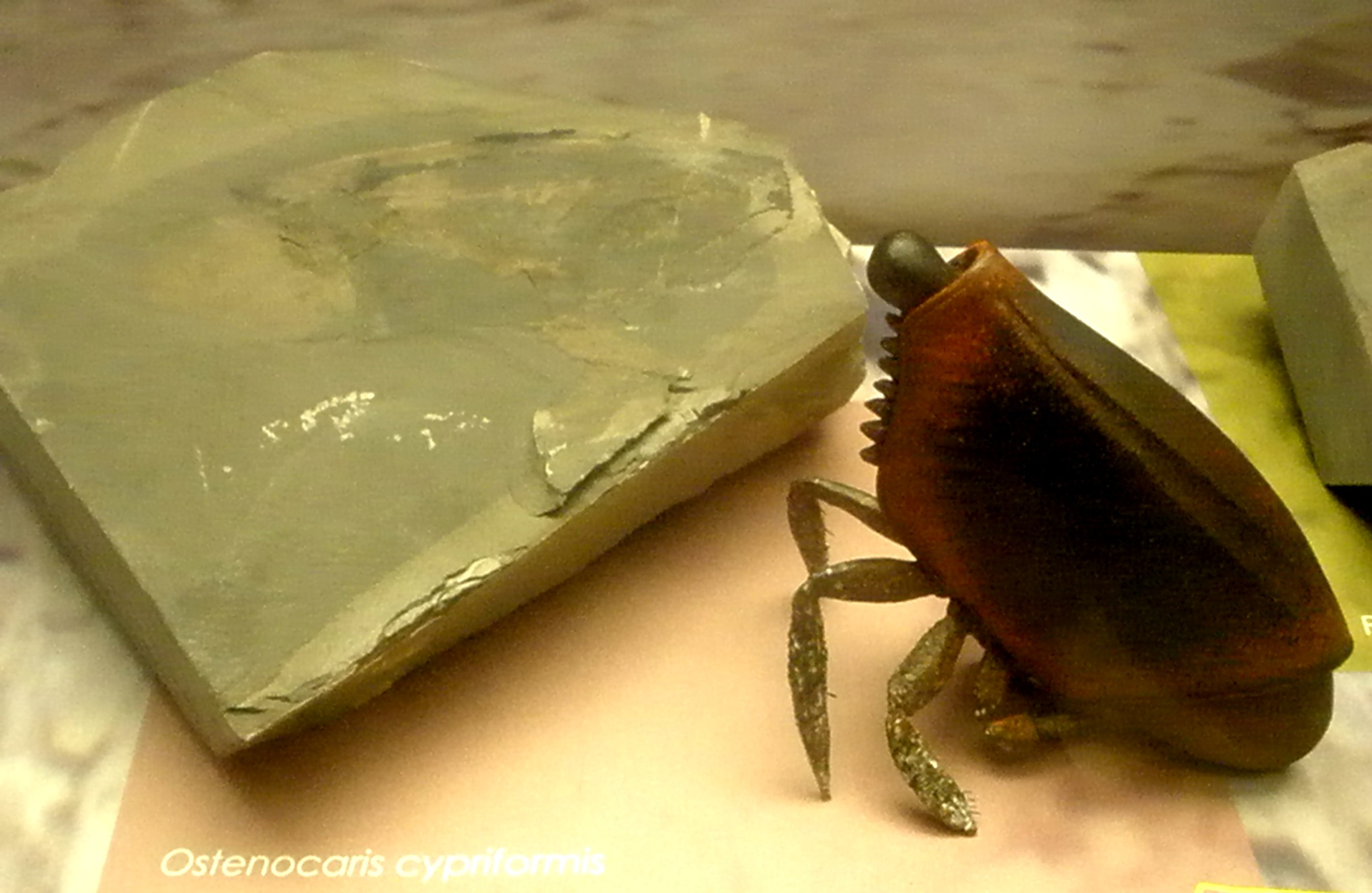 Fossil and reconstruction of Ostenocaris cypriformis, an extinct thylacocephalian